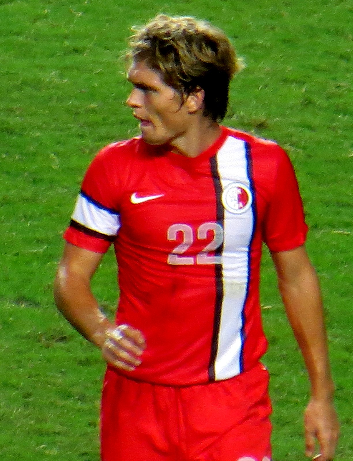 Jaimes McKee playing for Hong Kong national football team against UAE on 15 October 2013. 中文（香港）: 麥基為香港足球代表隊出戰阿拉伯聯合酋長國足球隊，2013年10月15日。